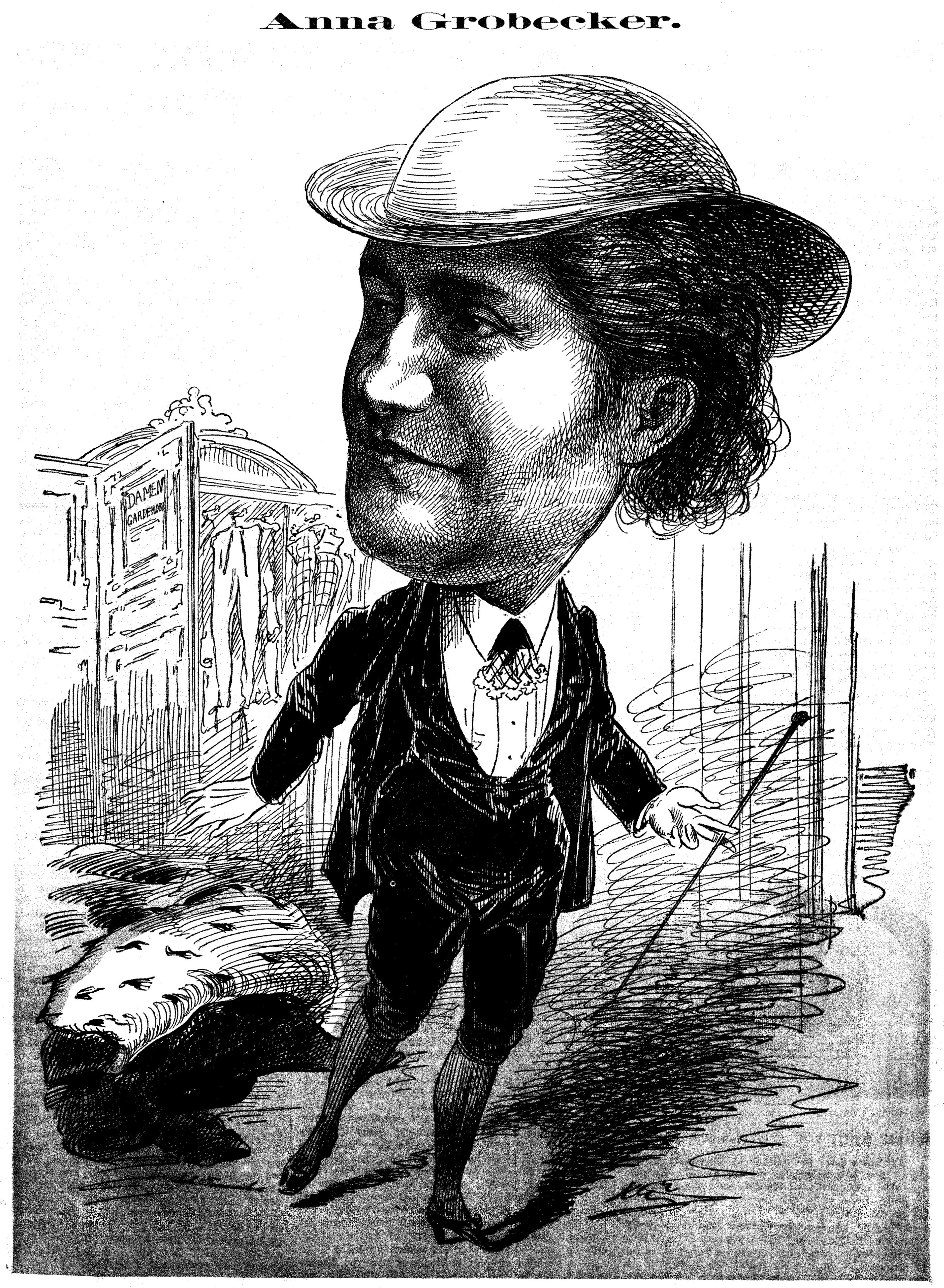 Cartoon of Anna Grobecker (1829-1908), German operette singer.